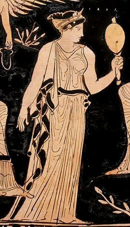 Cropped image of Iaso from a Greek urn